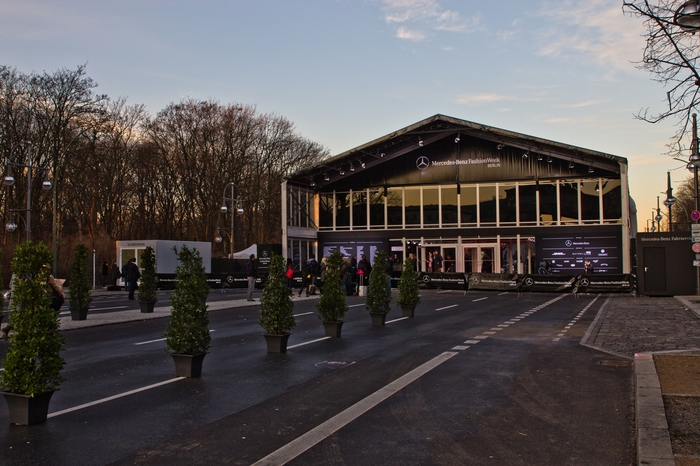 Fashion Week Berlin Tent January 2012